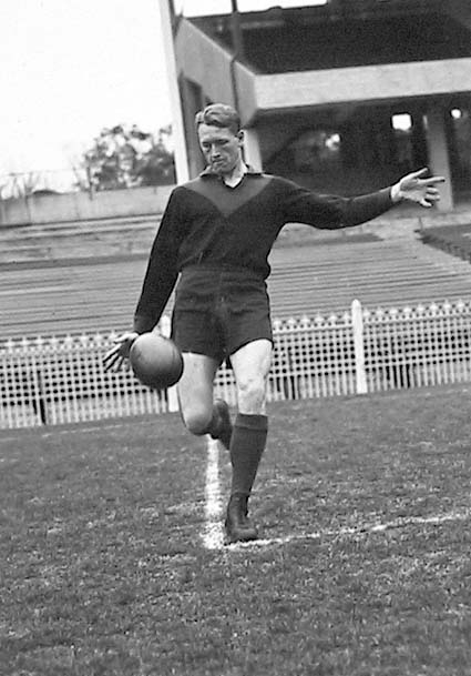 Sport and recreation - Football - Australian rules - Brownlow medalist Don Cordner demonstrates pint kick [photographic image]